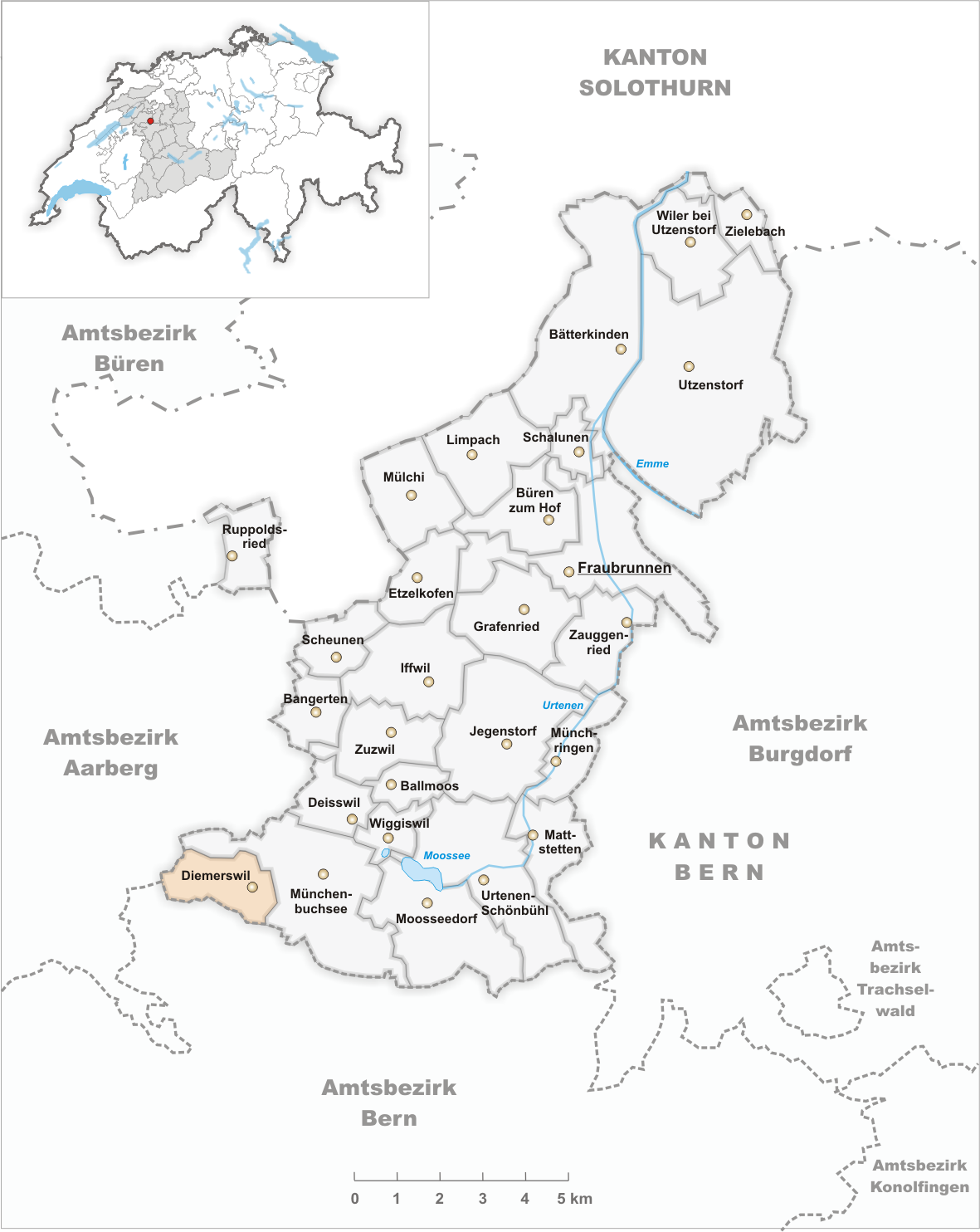 Municipality Diemerswil